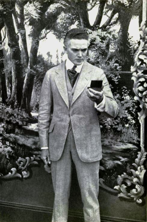 Still from the American film serial The Black Box (1915) with Herbert Rawlinson, from the front piece of the novel. Caption: Sanford Quest, criminologist.